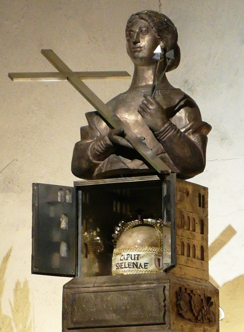 Head relic of Saint Helena in the crypt of Trier cathedral; while usually closed, the reliquary is opened on her likely day of death, August 18th.